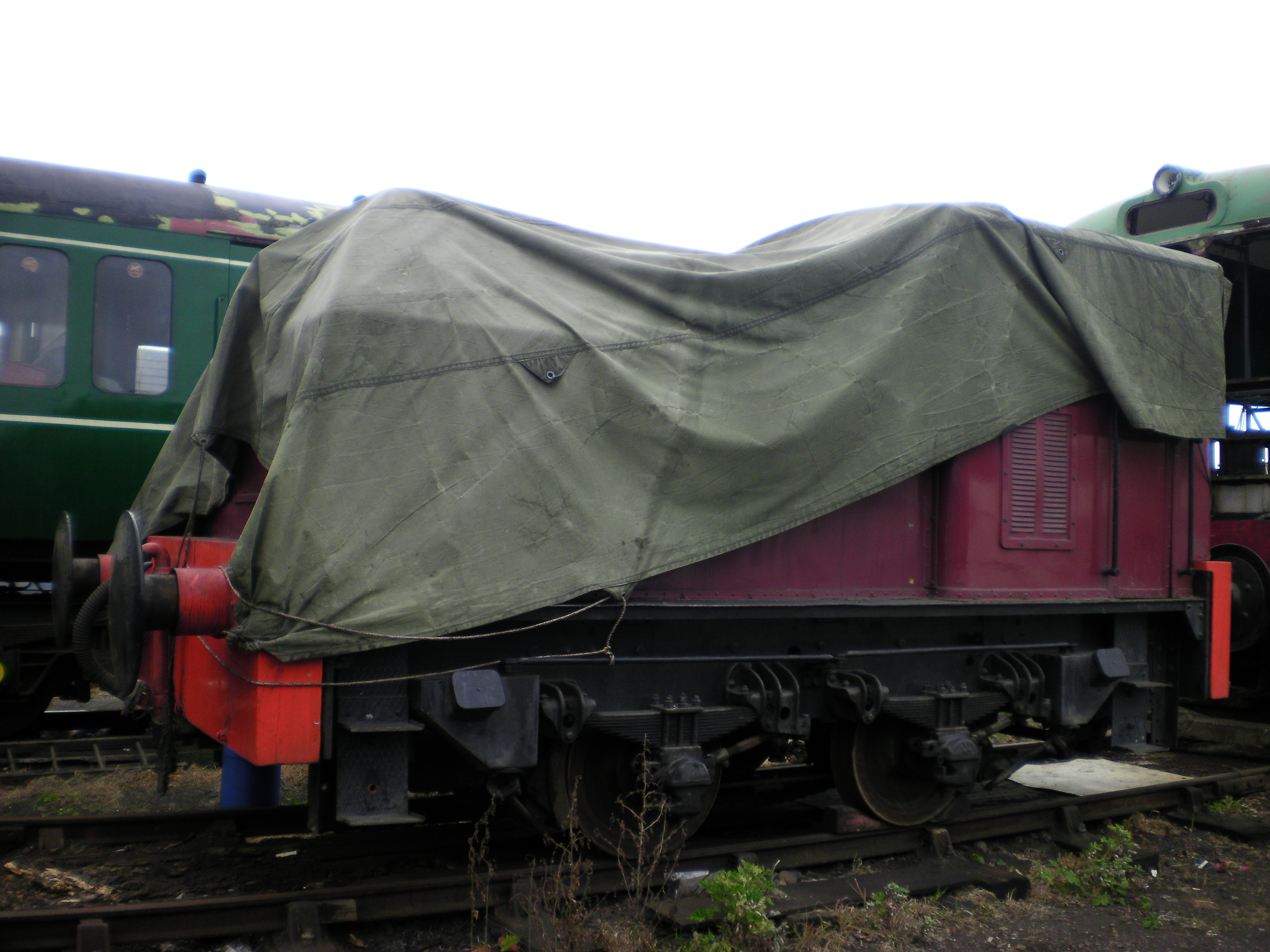 Seen here under a tarpaulin to protect her from the elements. This late addition to the Sentinel steam catalog is awaiting a turn at overhaul at Loughborough in May 2011.